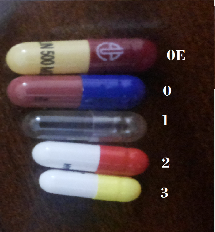 capsules